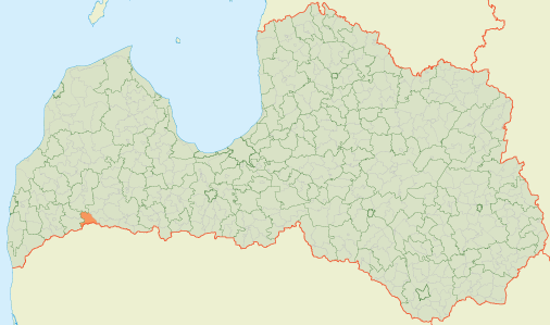 Location of Nīgrande Parish in Latvia